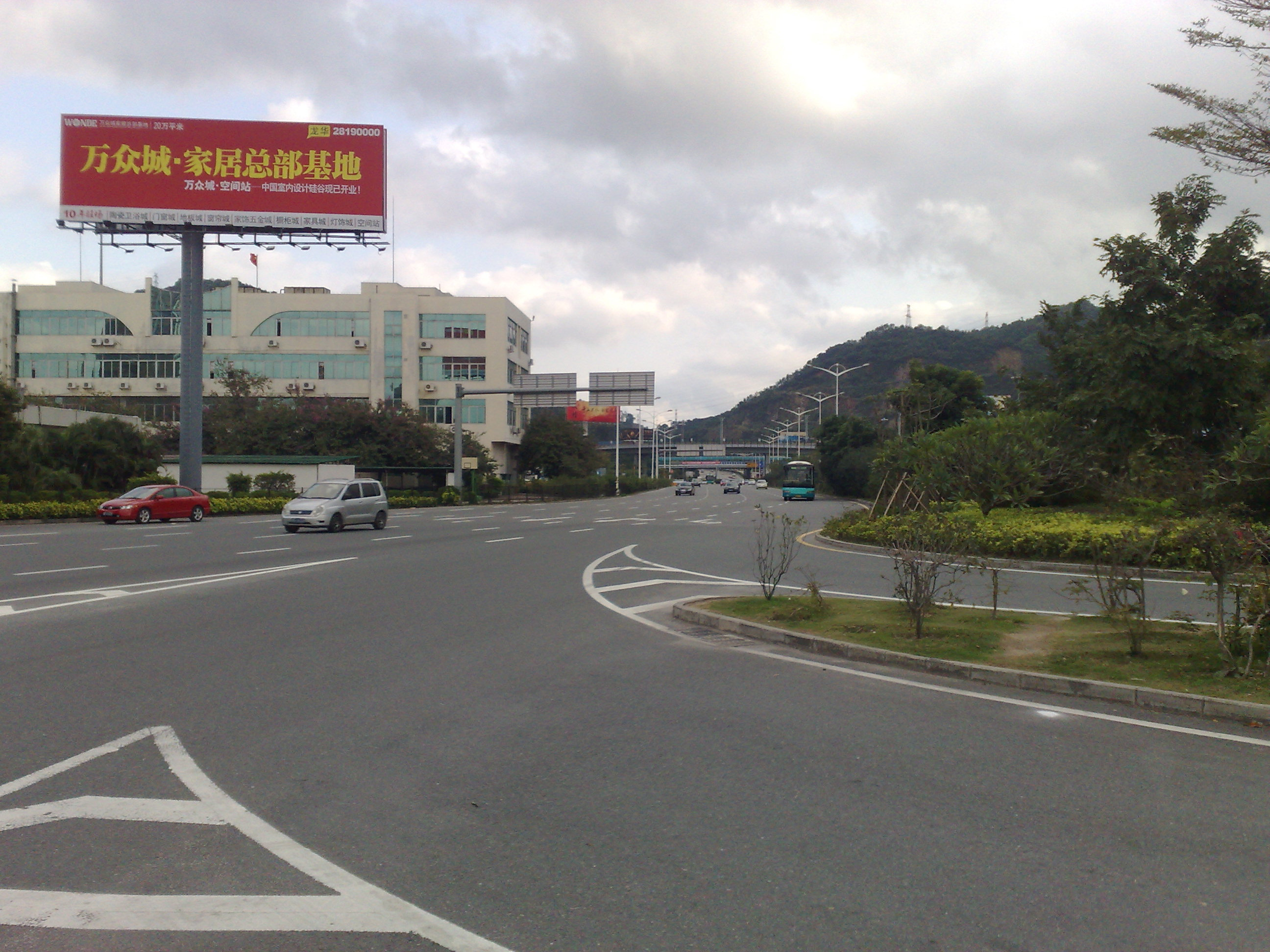 A photo of Meiguan Highway